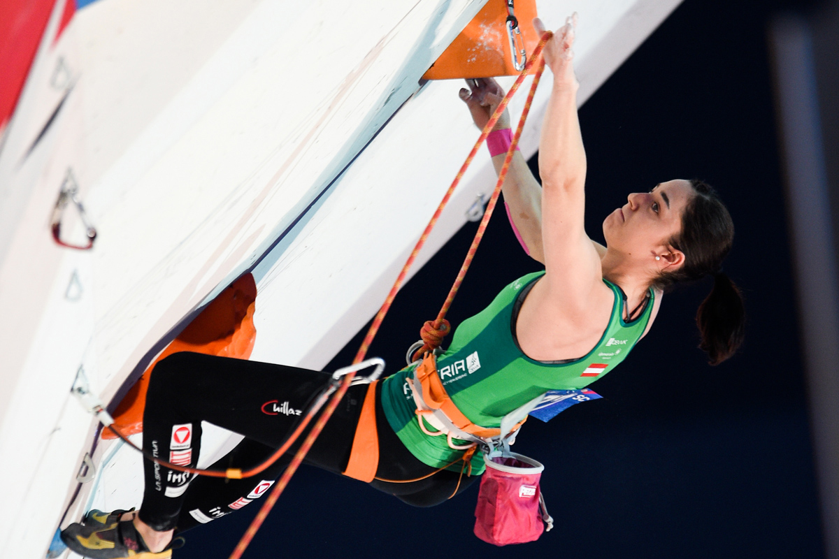 ПОШ Катерина (Австрия). Скалолазание, трудность, женщины, полуфинал. III Зимние Всемирные военные игры. Дворец спорта "Большой", Сочи, Россия. 25 февраля 2017. Фото Viktor Berezkin/CISM2017POSCH Katherina (Austria). Sport Climbing, Lead, Women, Semifinal. 3rd CISM World Winter Games. Bolshoy Ice Dome, Sochi, Russian Federation. February 25, 2017. Photo by Viktor Berezkin/CISM2017